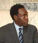 Don Cheadle and Condoleezza Rice, on February 5, 2007.